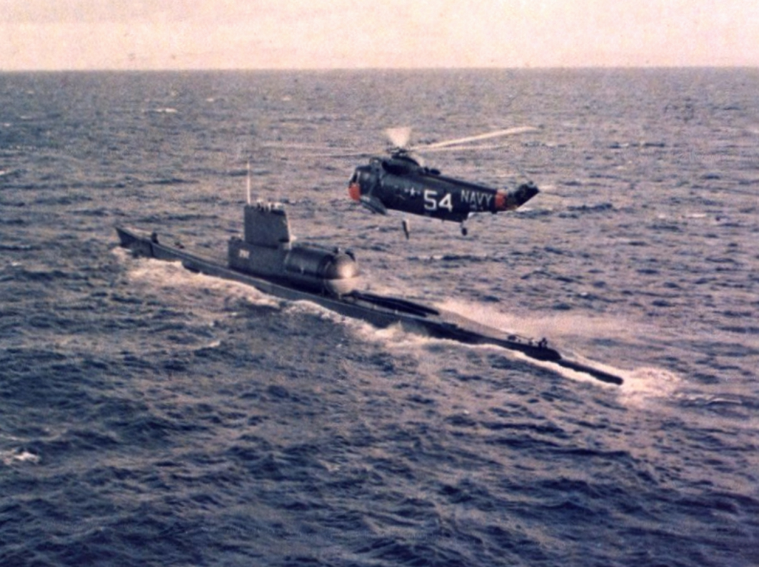 A Sikorsky SH-3A Sea King from Helicopter Anti-Submarine Squadron 4 (HS-4) "Black Knights" flies over the guided missile submarine USS Tunny (SSG-282). HS-4 was assigned to Carrier Anti-Submarine Air Group 55 (CVSG-55) aboard the aircraft carrier USS Yorktown (CVS-10) for a deployment to the Western Pacific and Vietnam from 22 October 1964 to 17 May 1965.